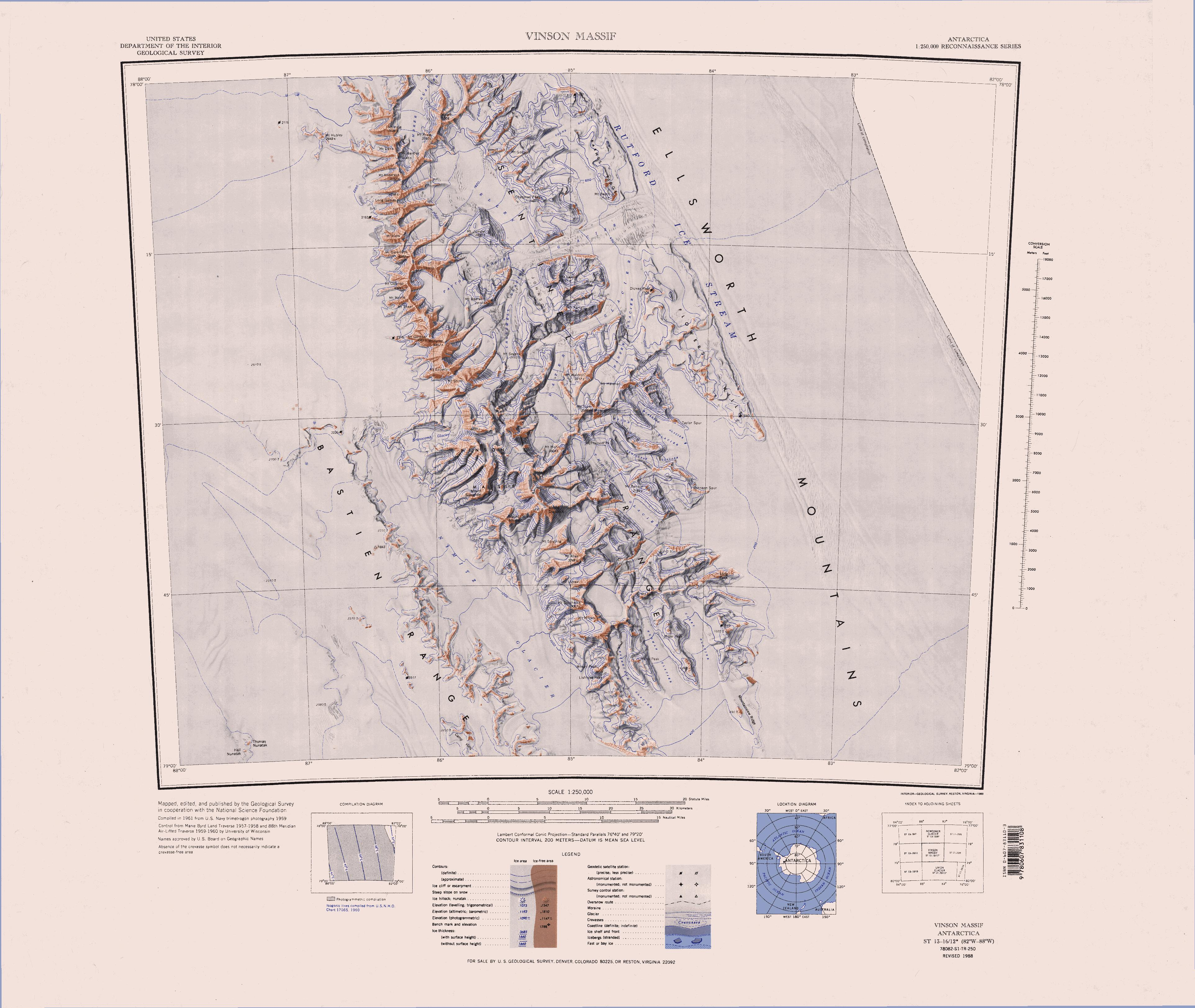 Map of Antarctica by the United States Antarctic Resource Center of the US Geological Survey (USGS).